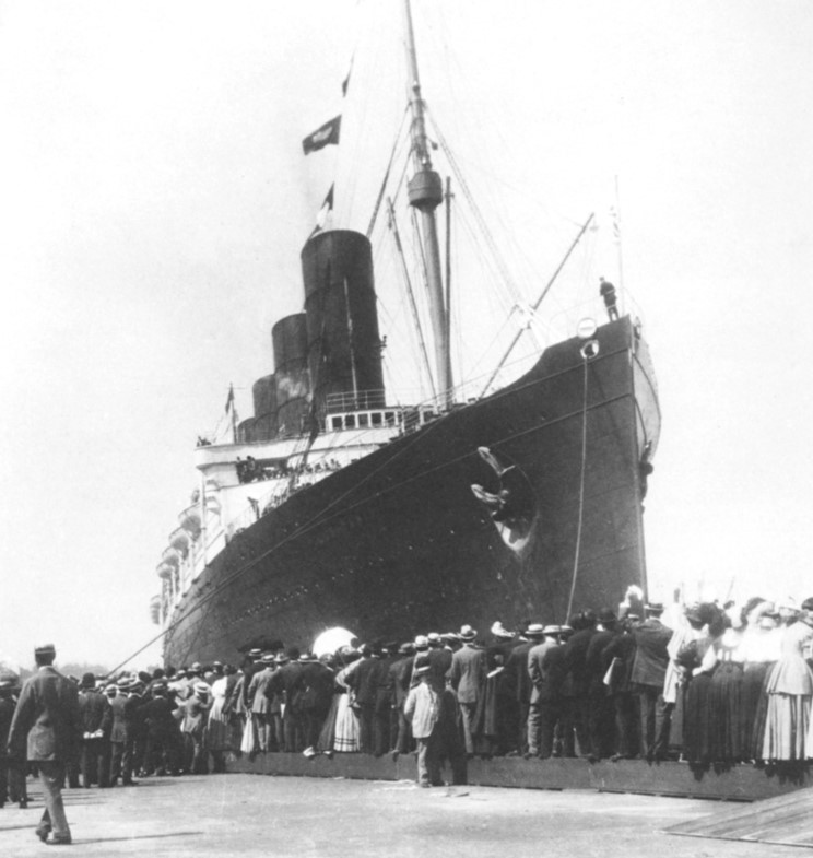 RMS Lusitania arriving in New York on her maiden voyage.